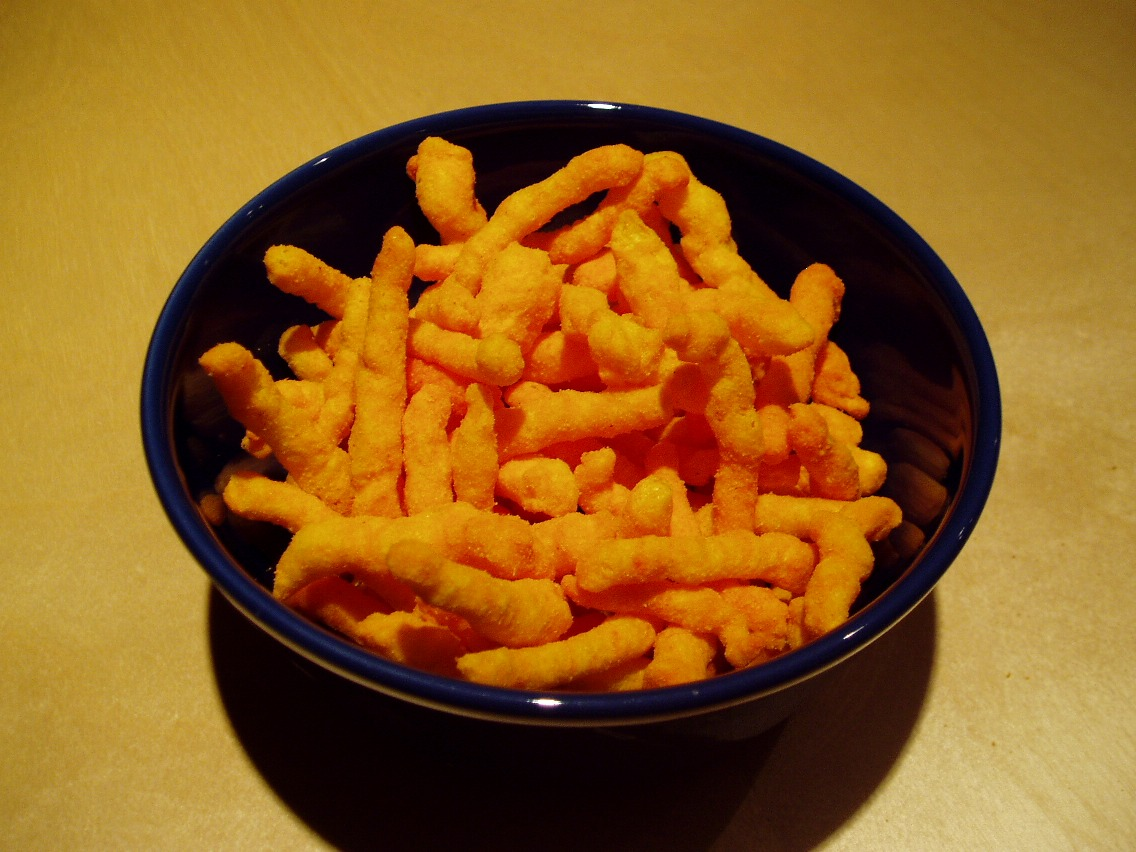 Cheese snack